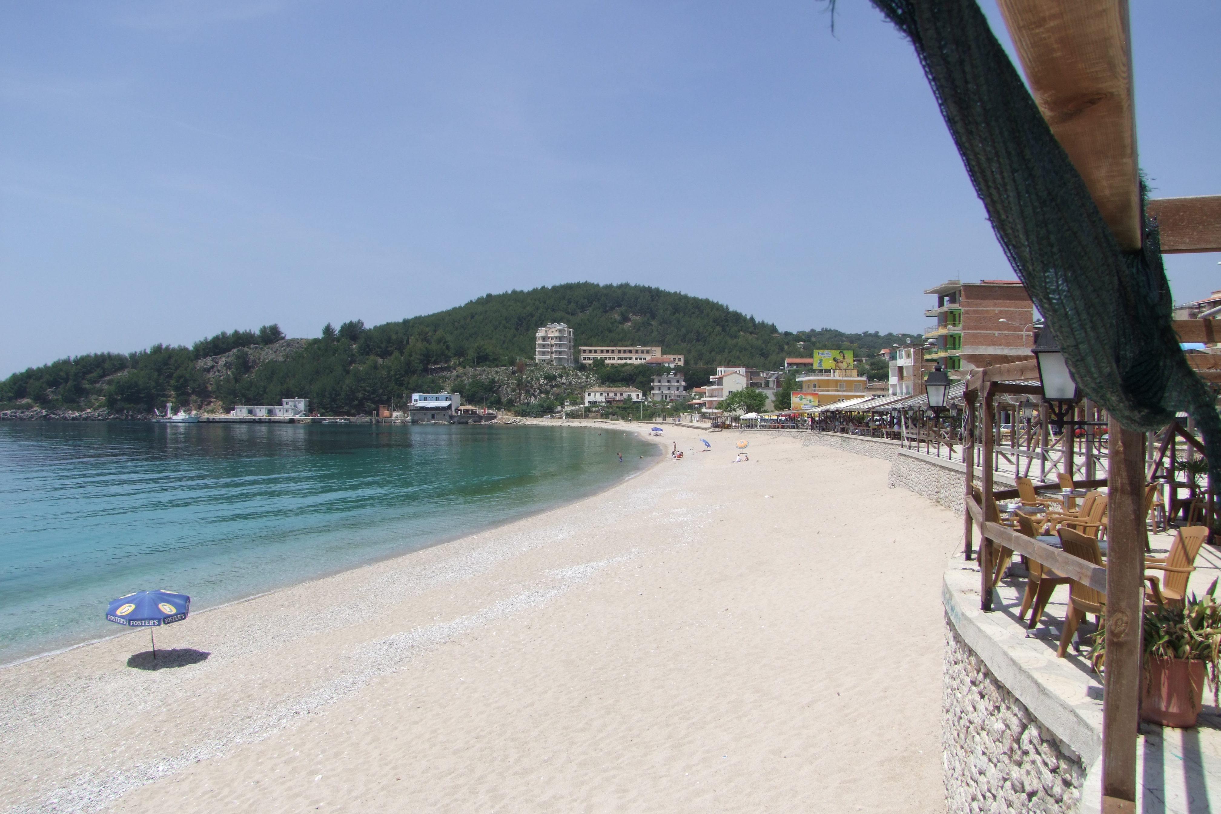 Himara/Albania The Beach